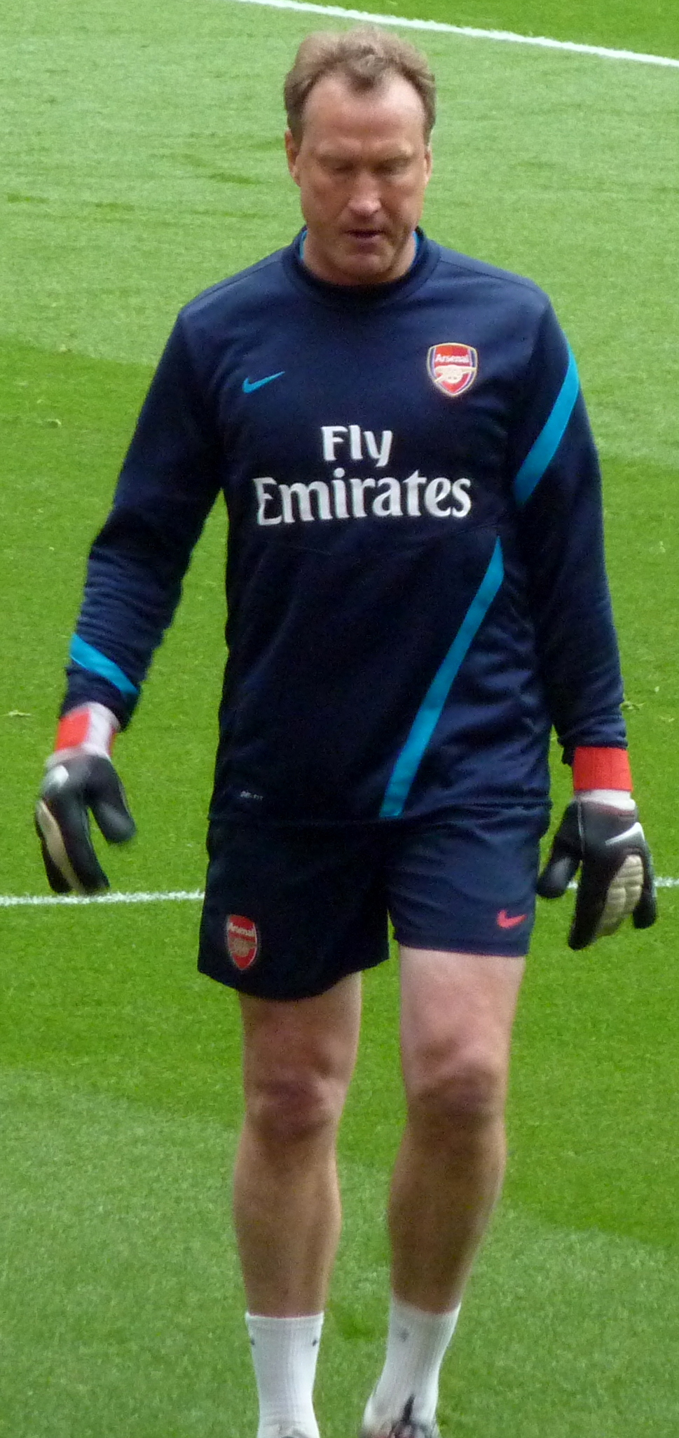 Arsenal FC goalkeeper coach.